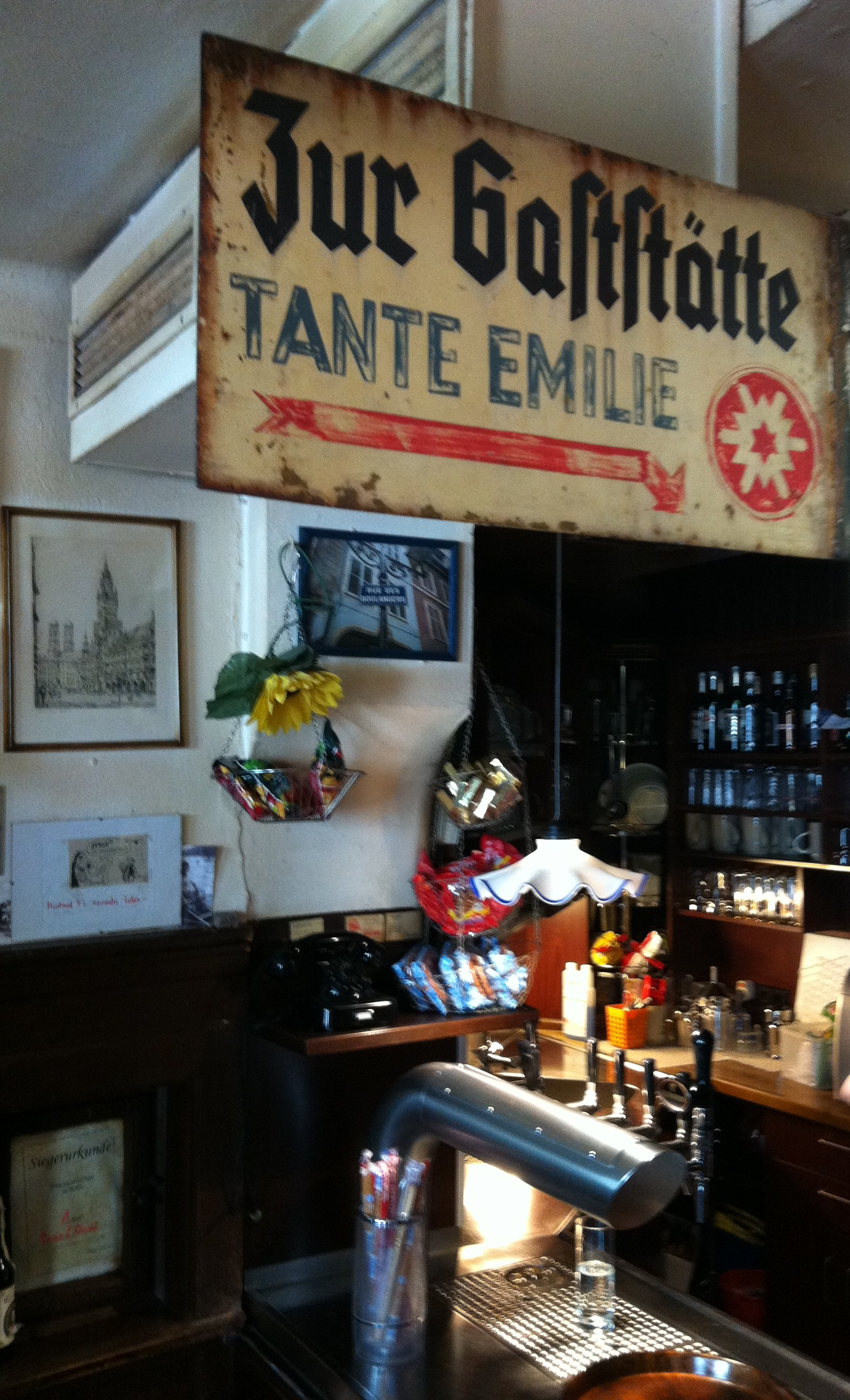 Restaurant sign of "Tante Emilie" now on display in the "Boulanger" pub at the corner of Collegiumsgasse and Marktgasse in Tübingen (Germany).